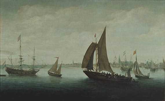 Two ferries leaving Hoorn Harbour